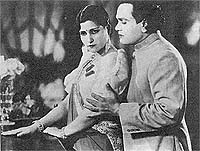 This is a still photograph from the Hindi movie Indira M.A made in 1934